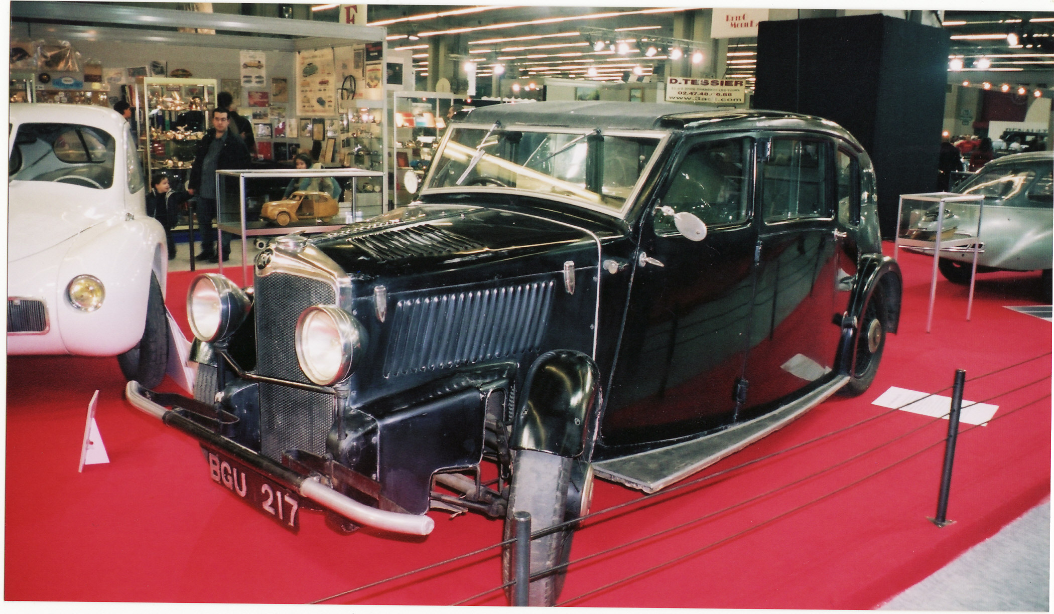 Massive vehicle - only 12 built in UK. Said to have had tricky handling and stability, due to wholly overhung rear engine!!Spotted at Retromobile 2005